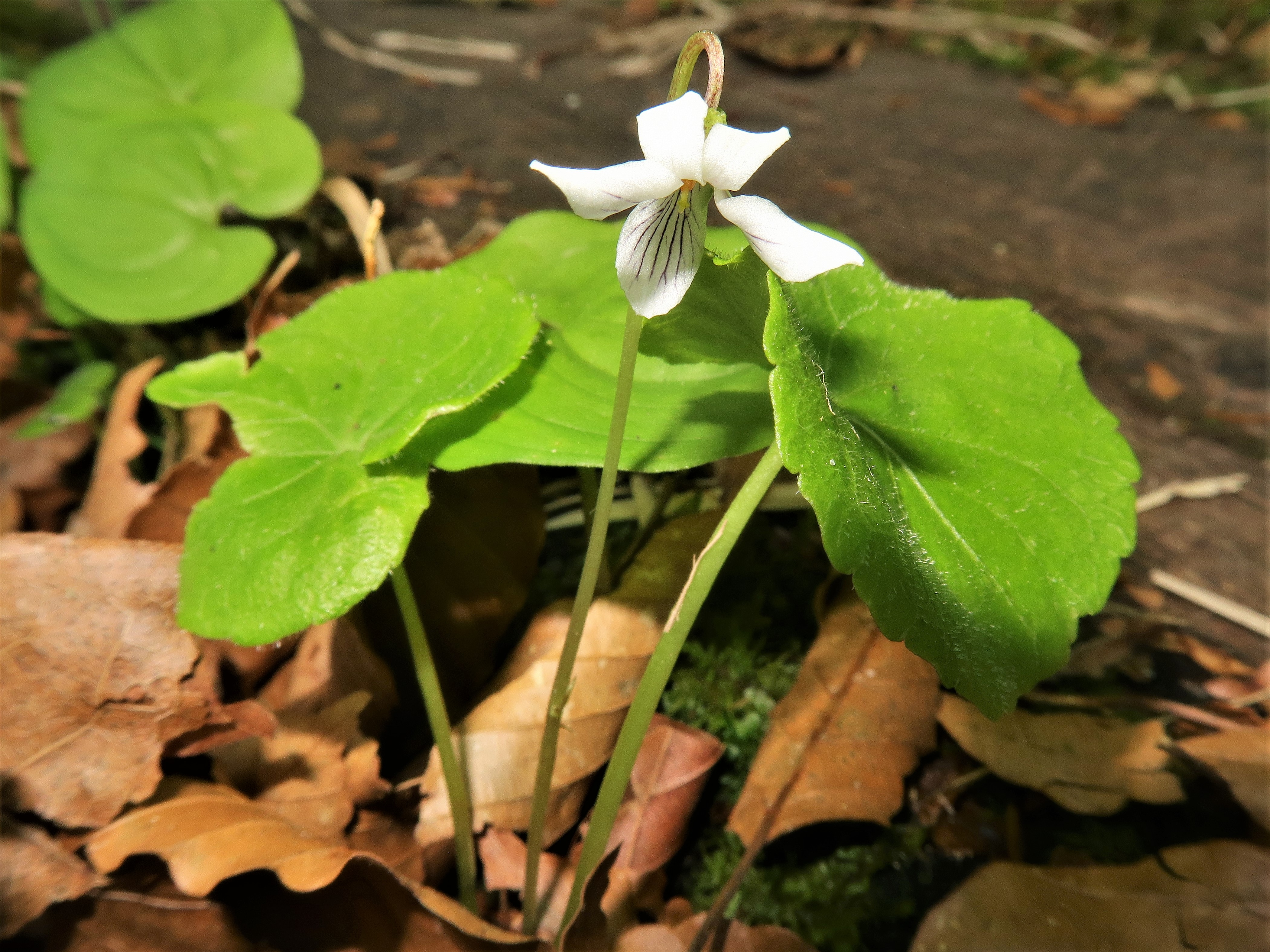 Viola hultenii, Aizu area, Fukushima pref., Japan